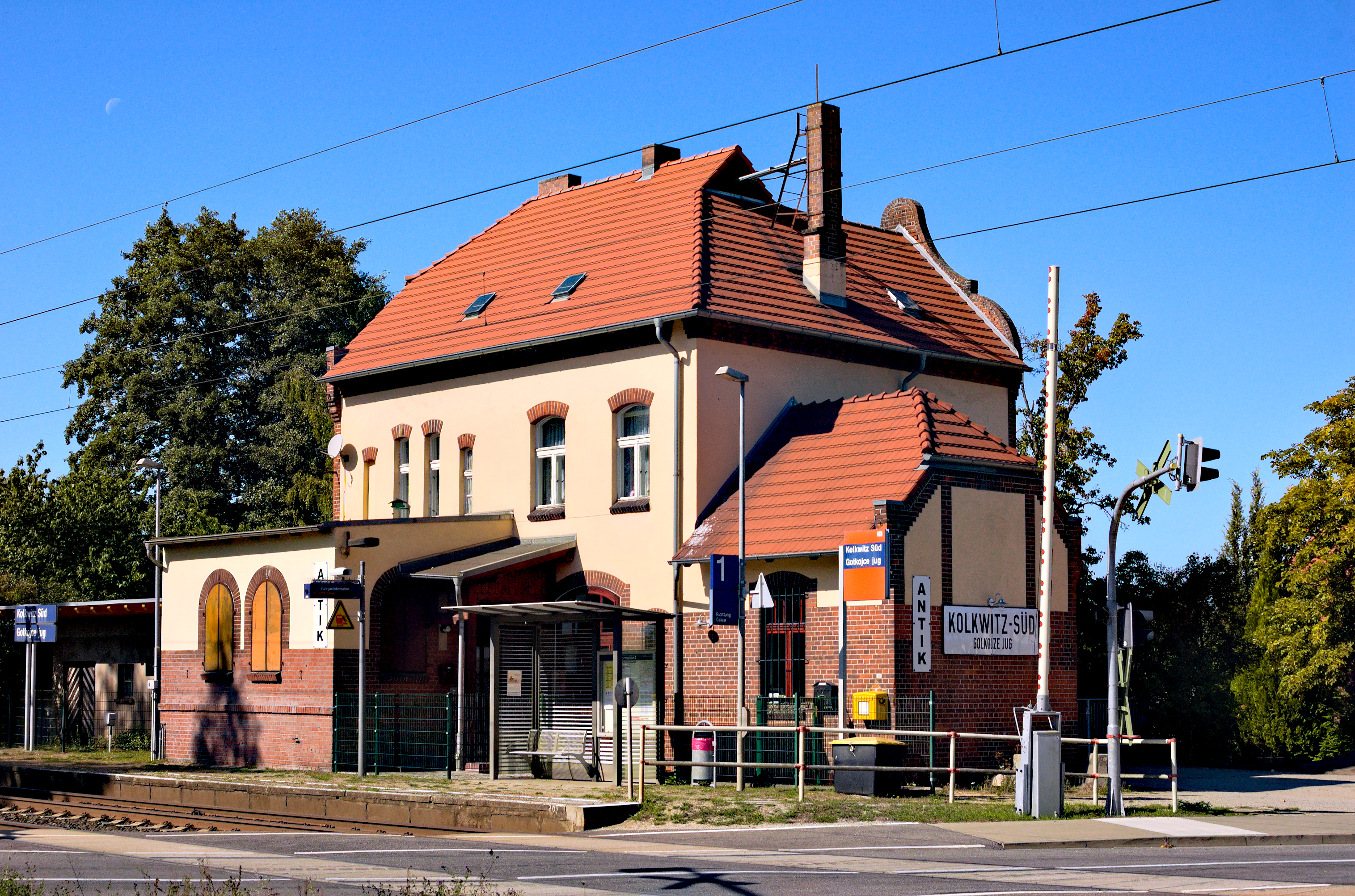 The station building of Kolkwitz-Süd station.